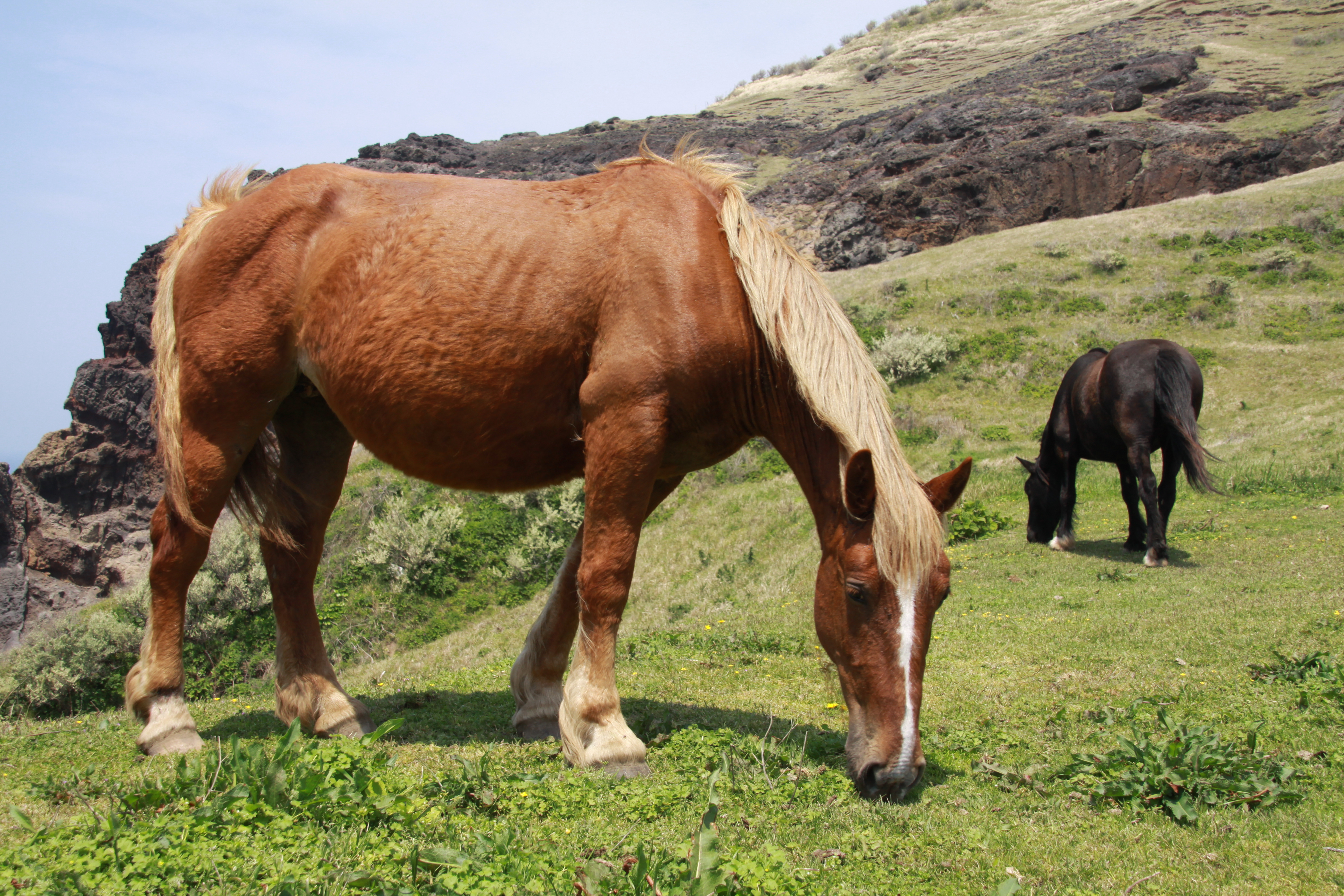 at Kuniga coast, Nishinoshima